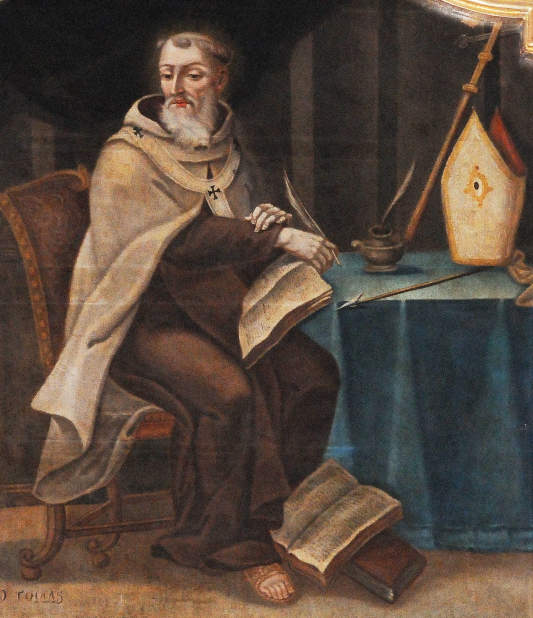 Painting of Saint Peter Thomas in Carmo Church, a Carmelite church in São Vicente, Braga, Portugal